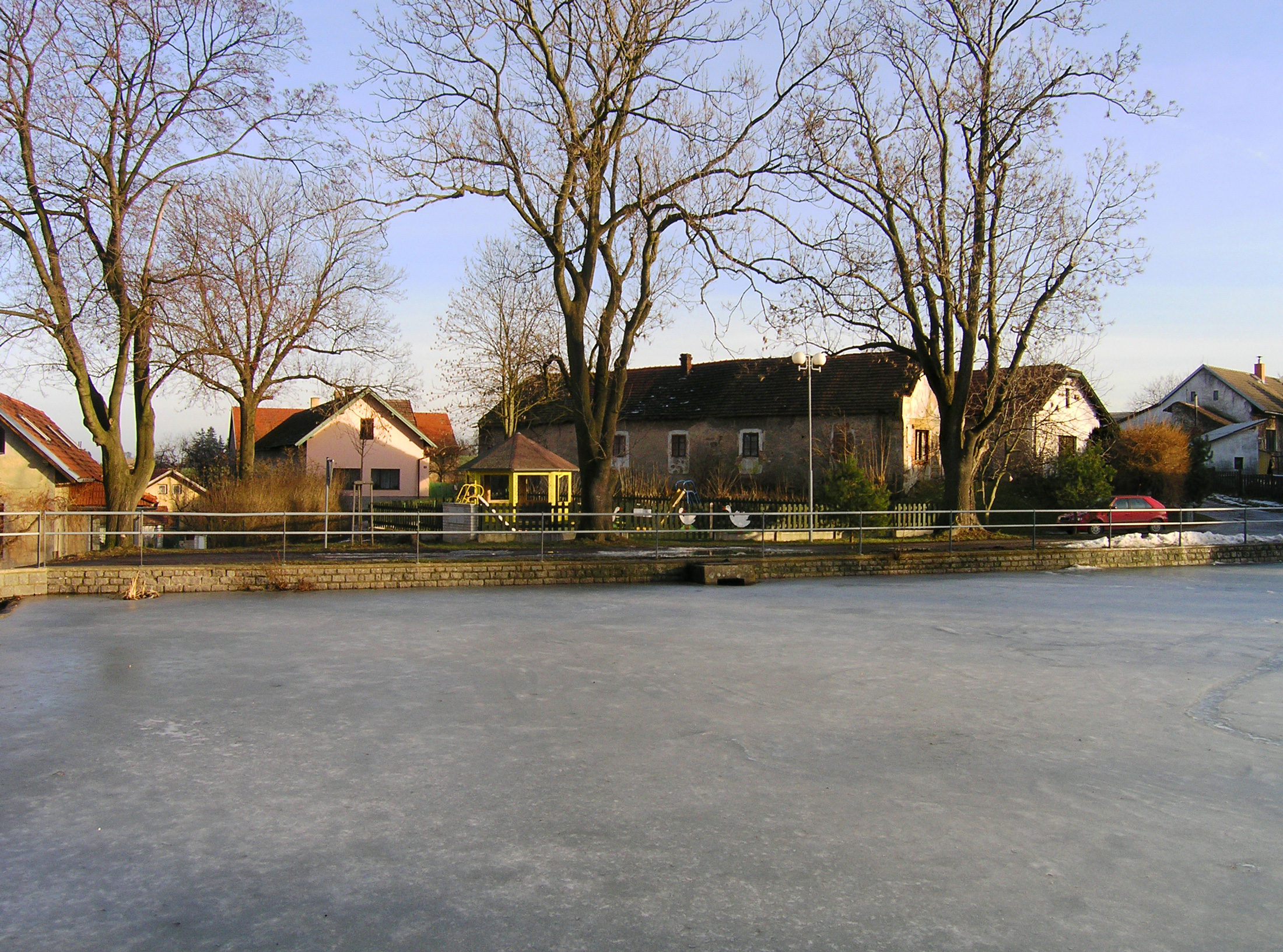 Common at Tehovec, Czech Republic